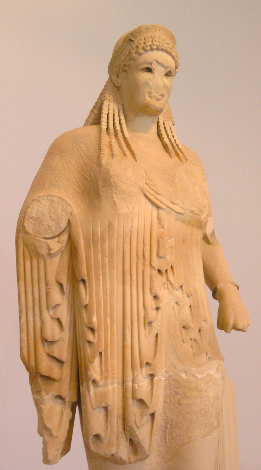 Antenor Kore, marble kore by Antenor, ca. 520 BC, found on the Acropolis